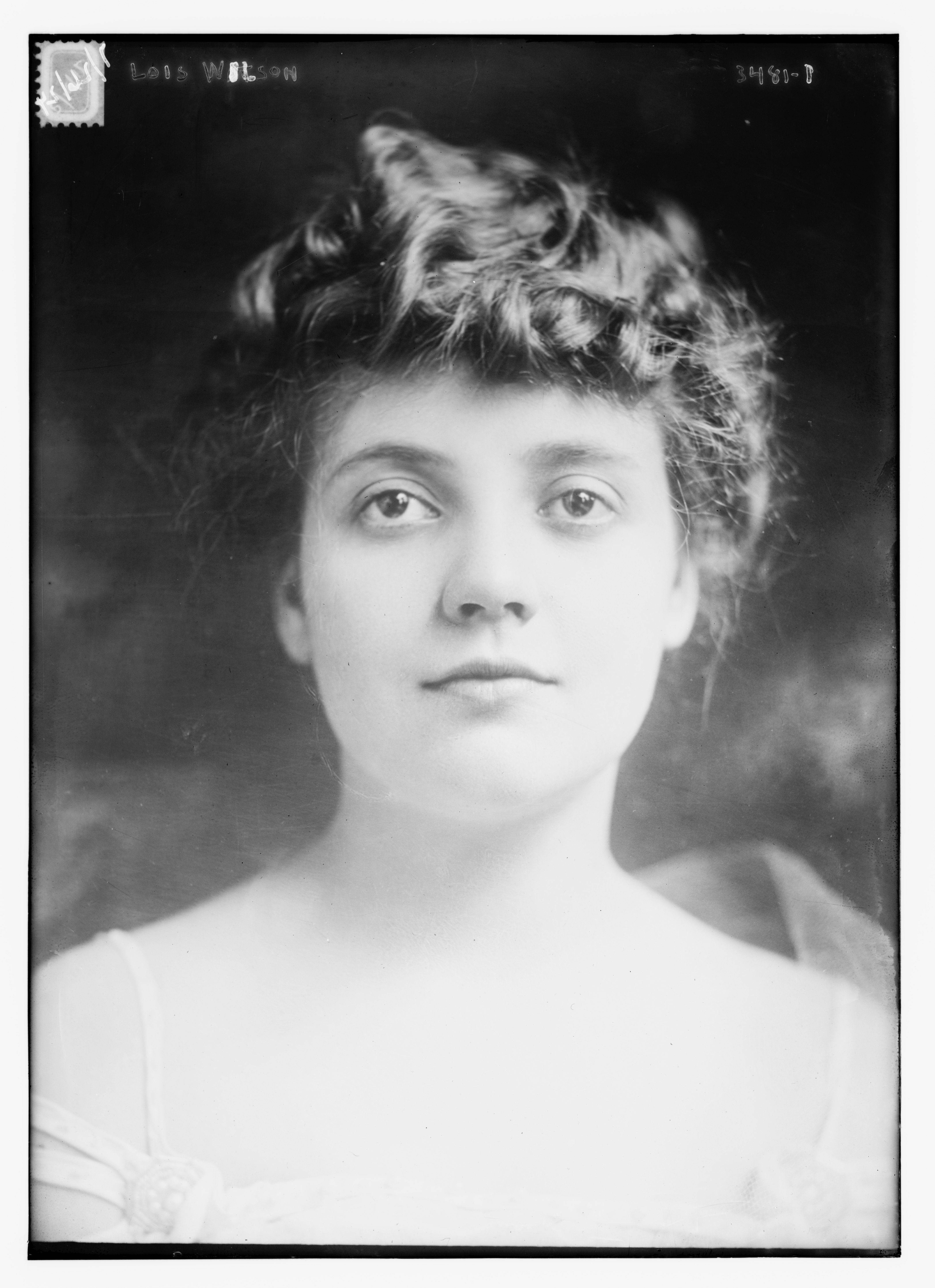 Title: Lois Wilson Abstract/medium: 1 negative : glass ; 5 x 7 in. or smaller.